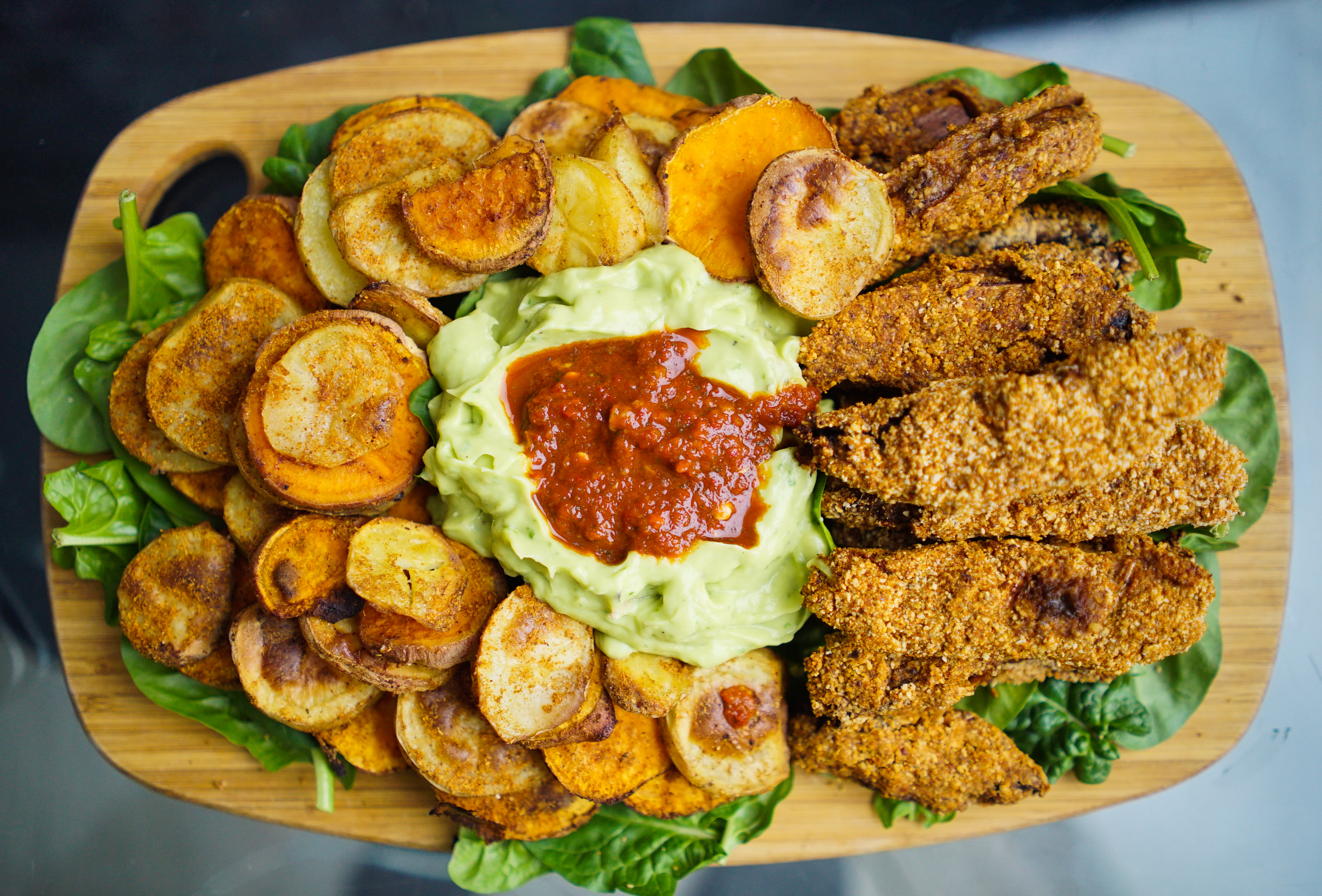 Vegan food photo. Use as you wish.